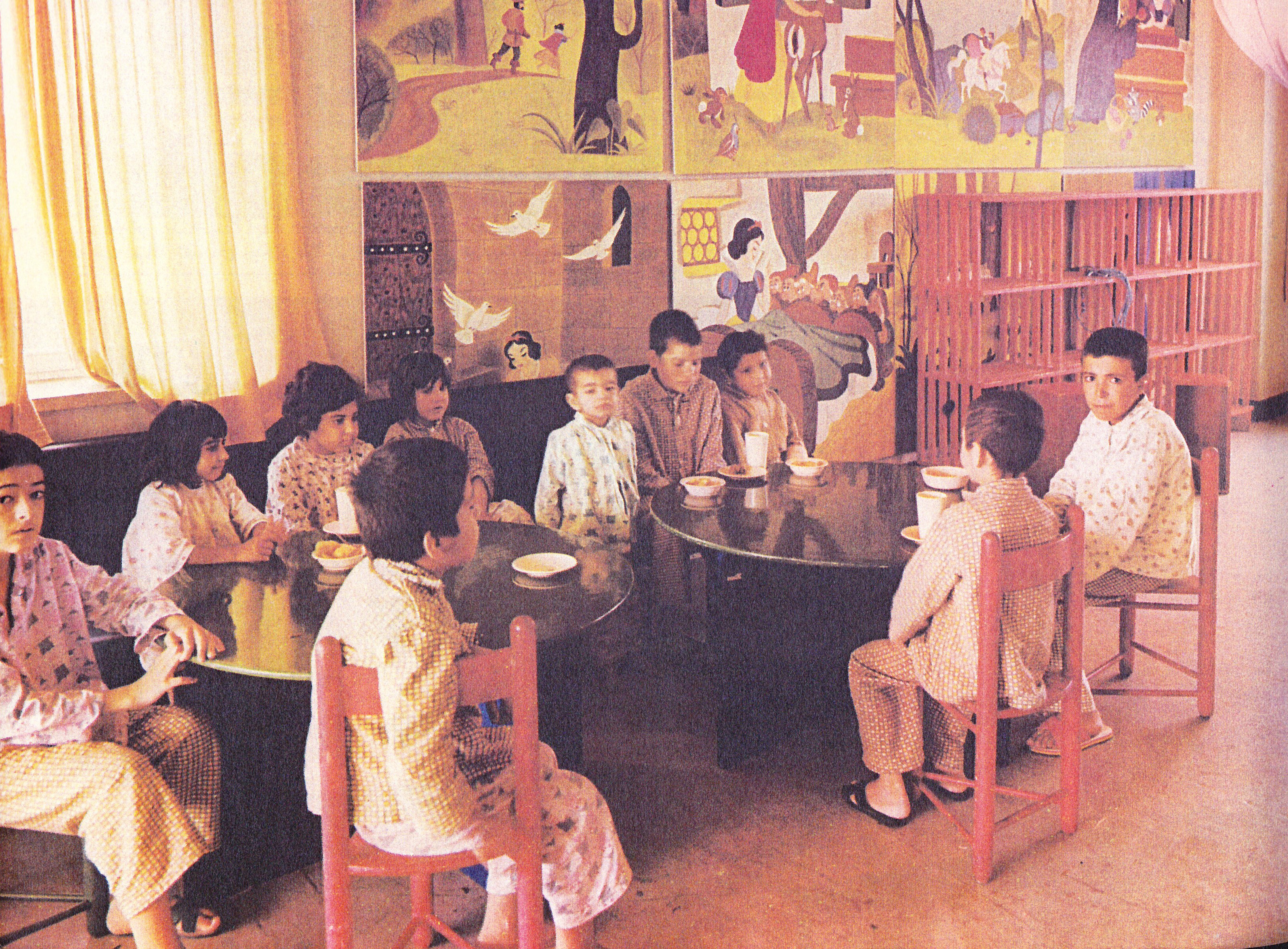 Orphanage Iran, built and run by Farah Pahlavi Foundation